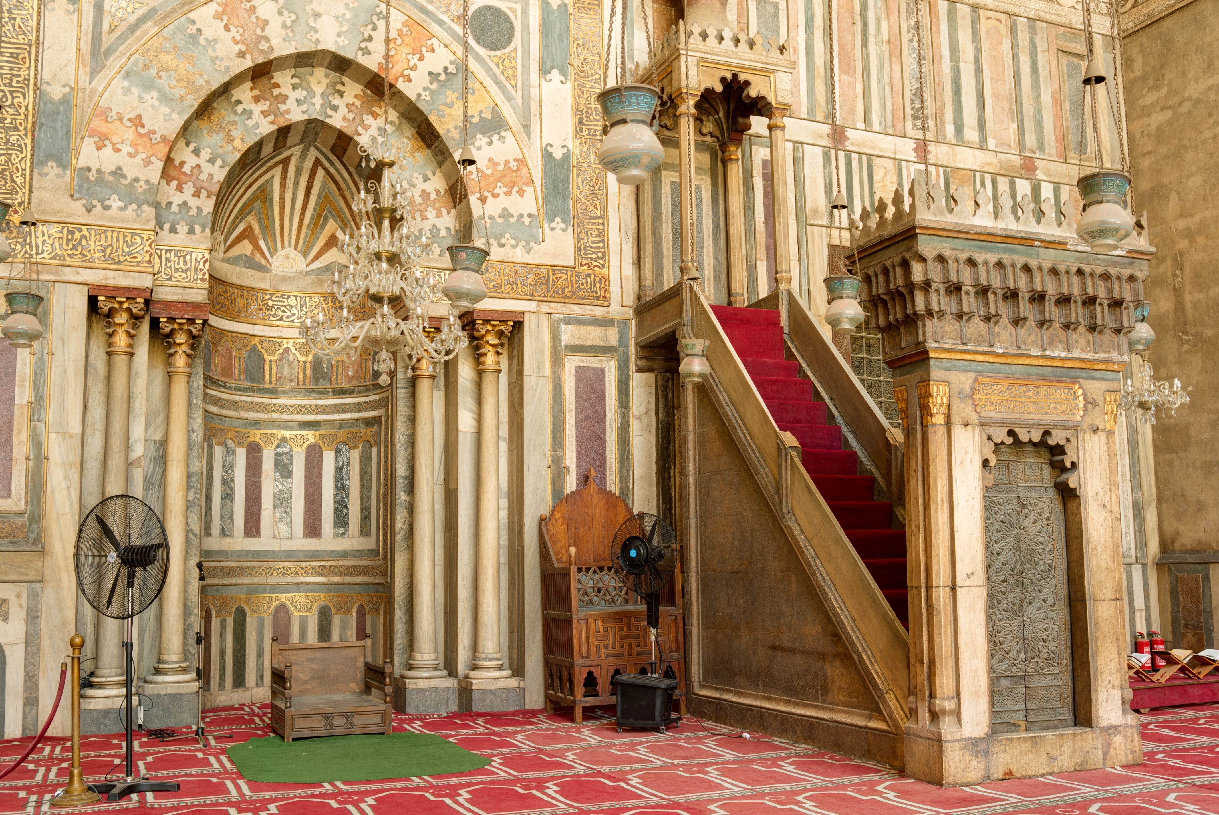 Mihrab and Minbar of the Sultan Hasan Mosque, Cairo, Egypt.